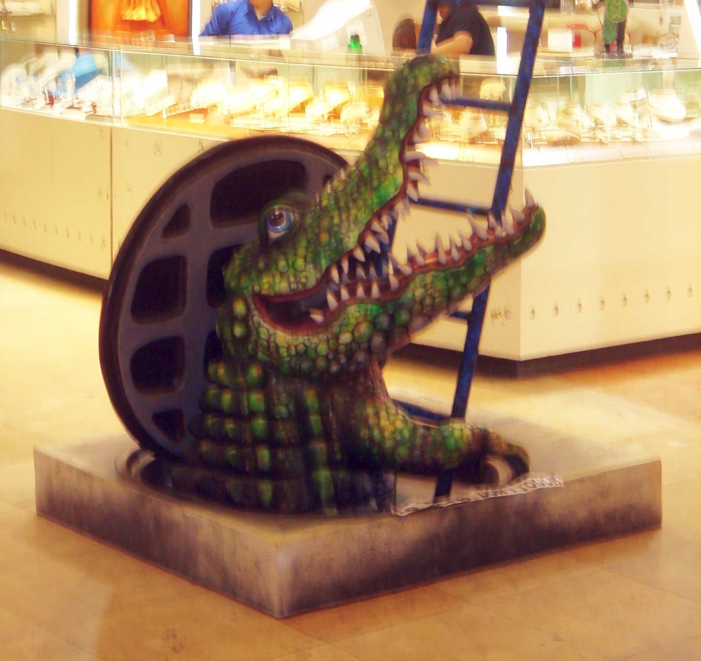 Sewer gator figue in a mall